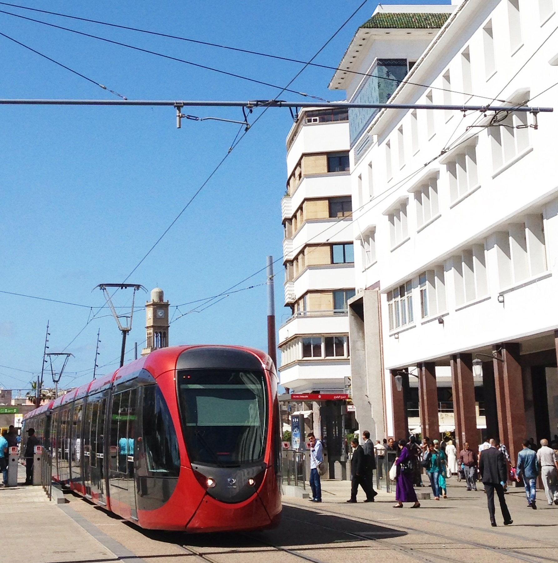 Tramway in Casablanca, leaving Place des Nations Unis station